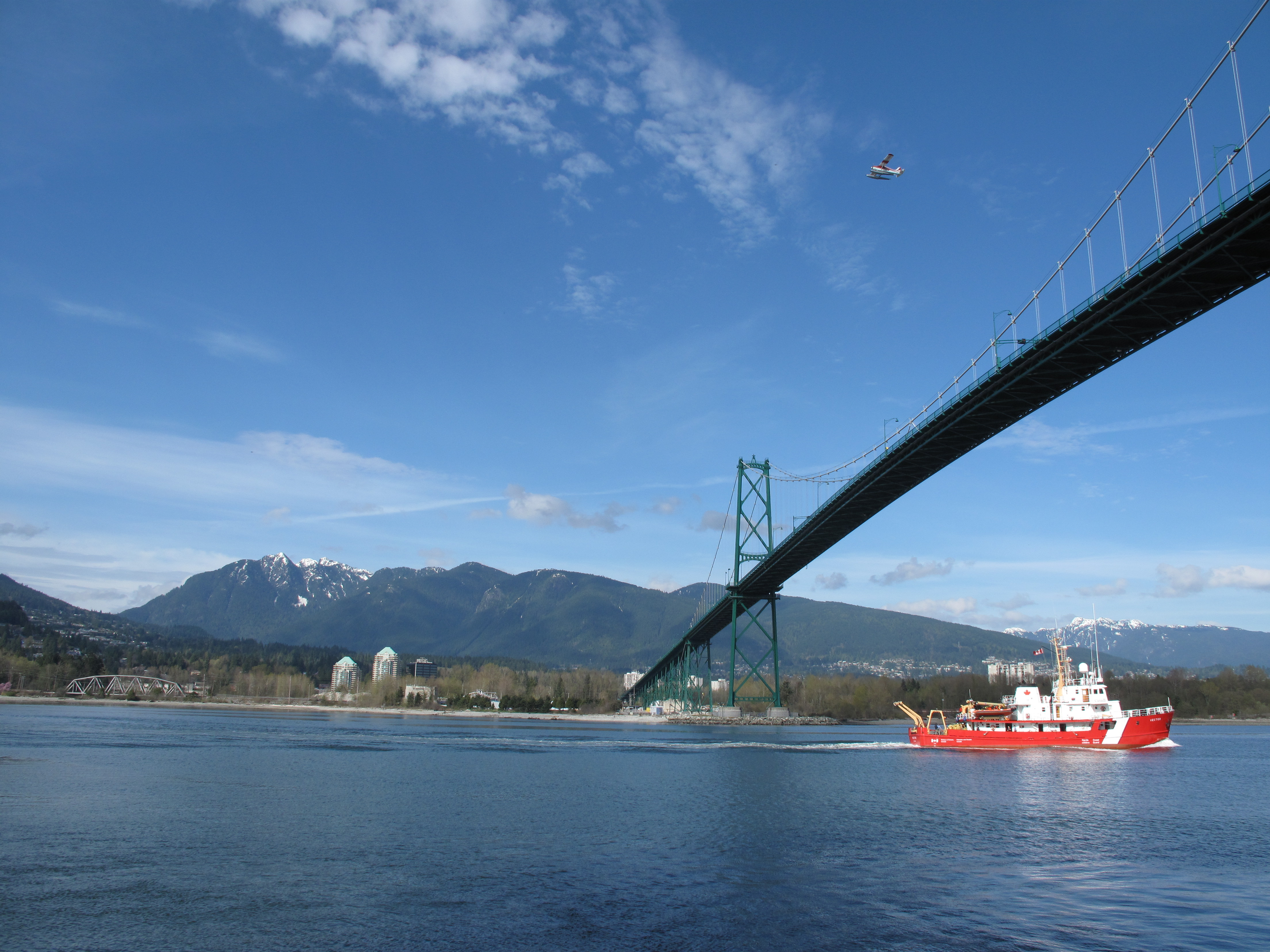 CCGS Vector at Burrard Inlet (Vancouver) Information about CCGS Vector / NGCC Vector may be found at IMO 6717760.A ship can change name and flag state through time, but the IMO number remains the same through the hull's entire lifetime. As a result, it can be useful to identify a ship by using the IMO number.